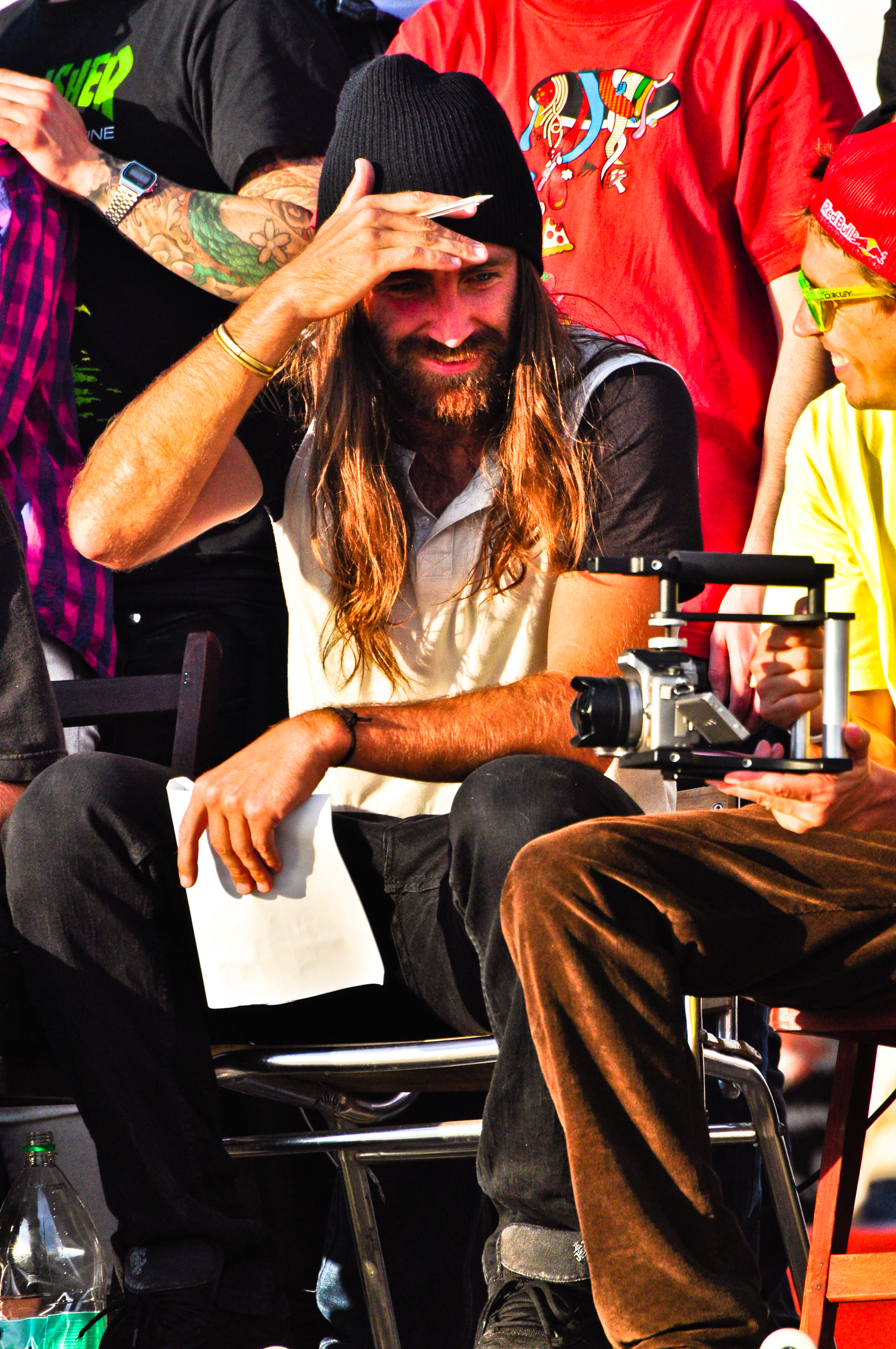 Canadian skateboarder Chris Haslam in Montevideo, Uruguay.